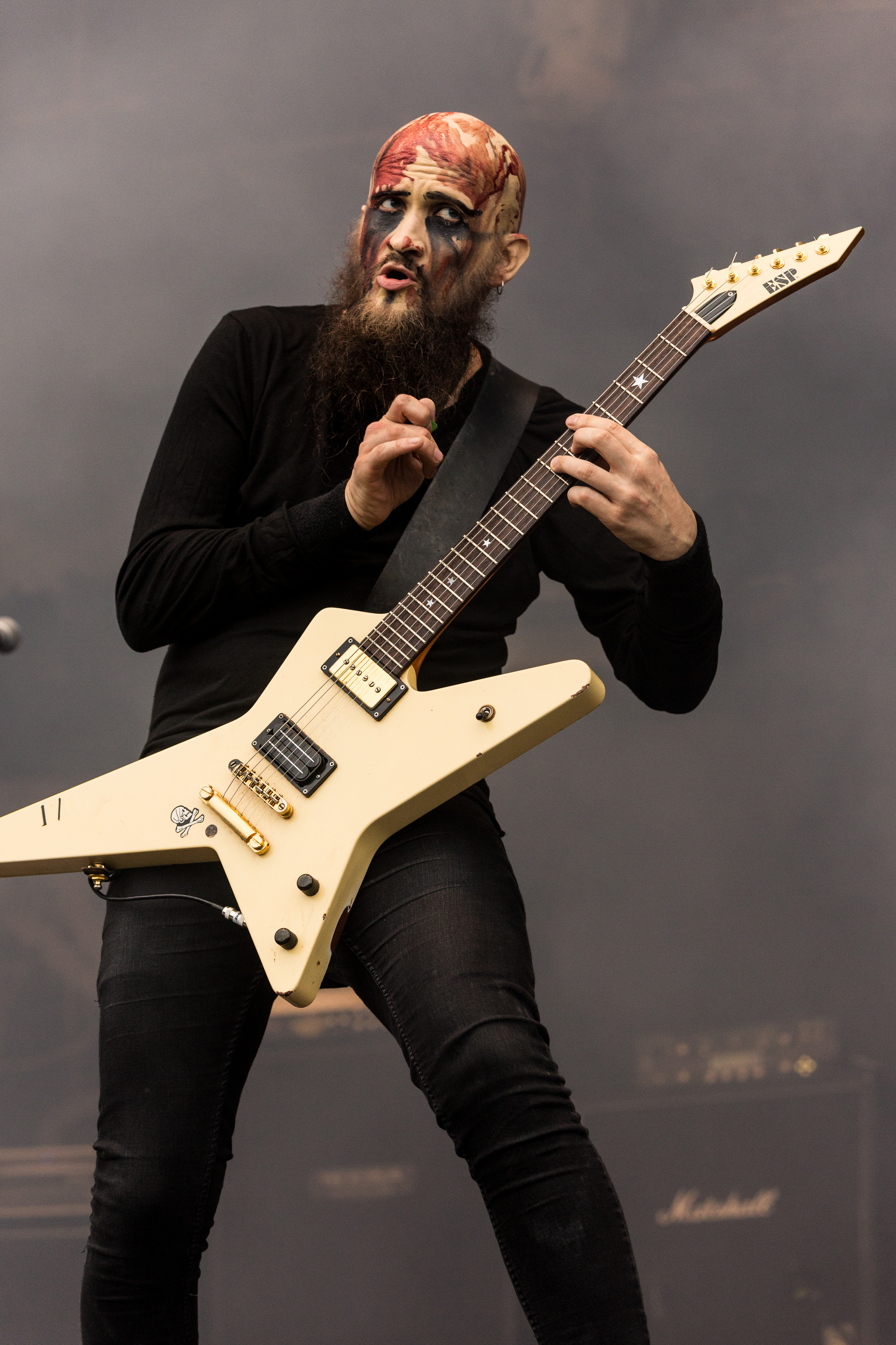 The Finnish pagan black metal band Moonsorrow at the Party.San Metal Open Air 2017 in Obermehler-Schlotheim/Germany.